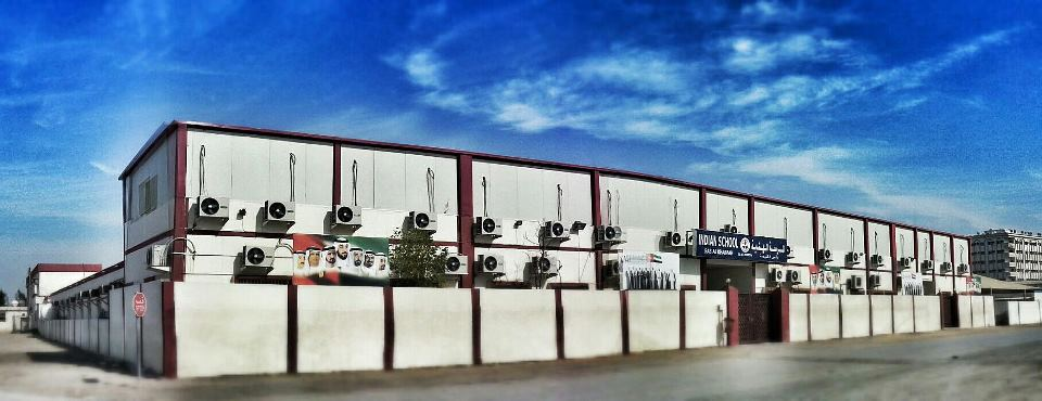 A panoramic view of the front view of IHS RAK